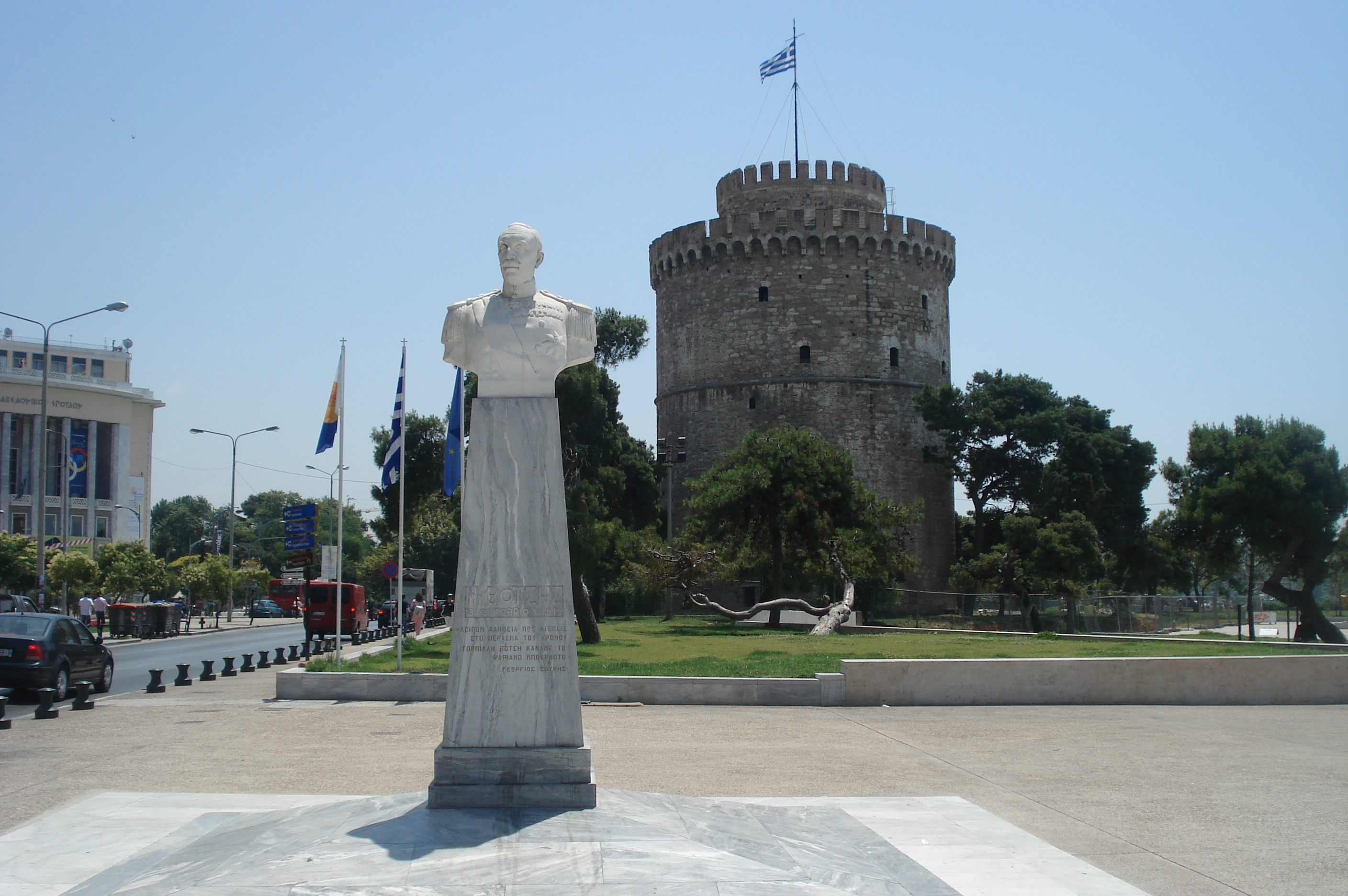 A bust of N. Votsis (by sculptor G. Dimitriadis (1880 – 1941)) in front of the White Tower of Thessaloniki, Greece.